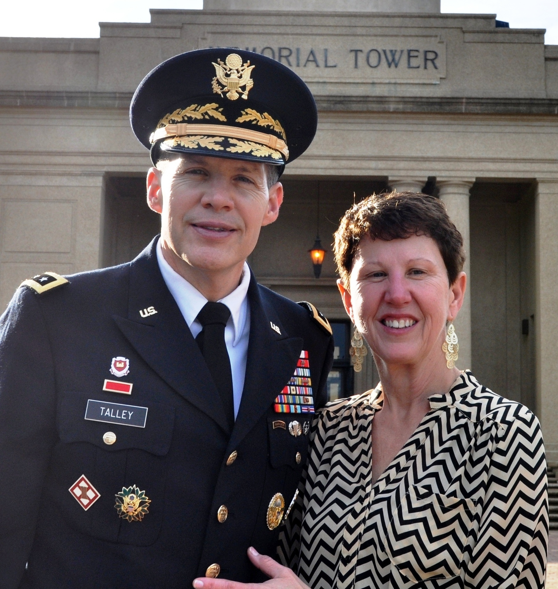 Mr and Mrs Talley at Louisiana State University